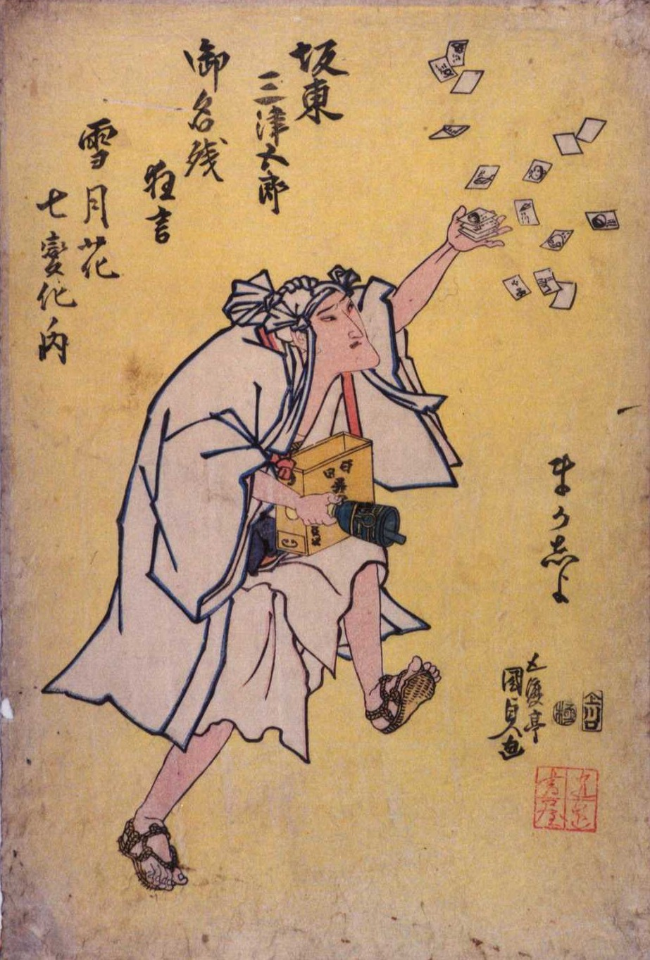 from series "Shichi henge" with Bandô Mitsugorô III